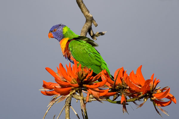 Rainbow Lorikeet in a Erythrina "flame" tree, Sir James Mitchell Park, South Perth, Western Australia.